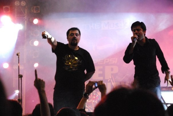 Epatkarachi.